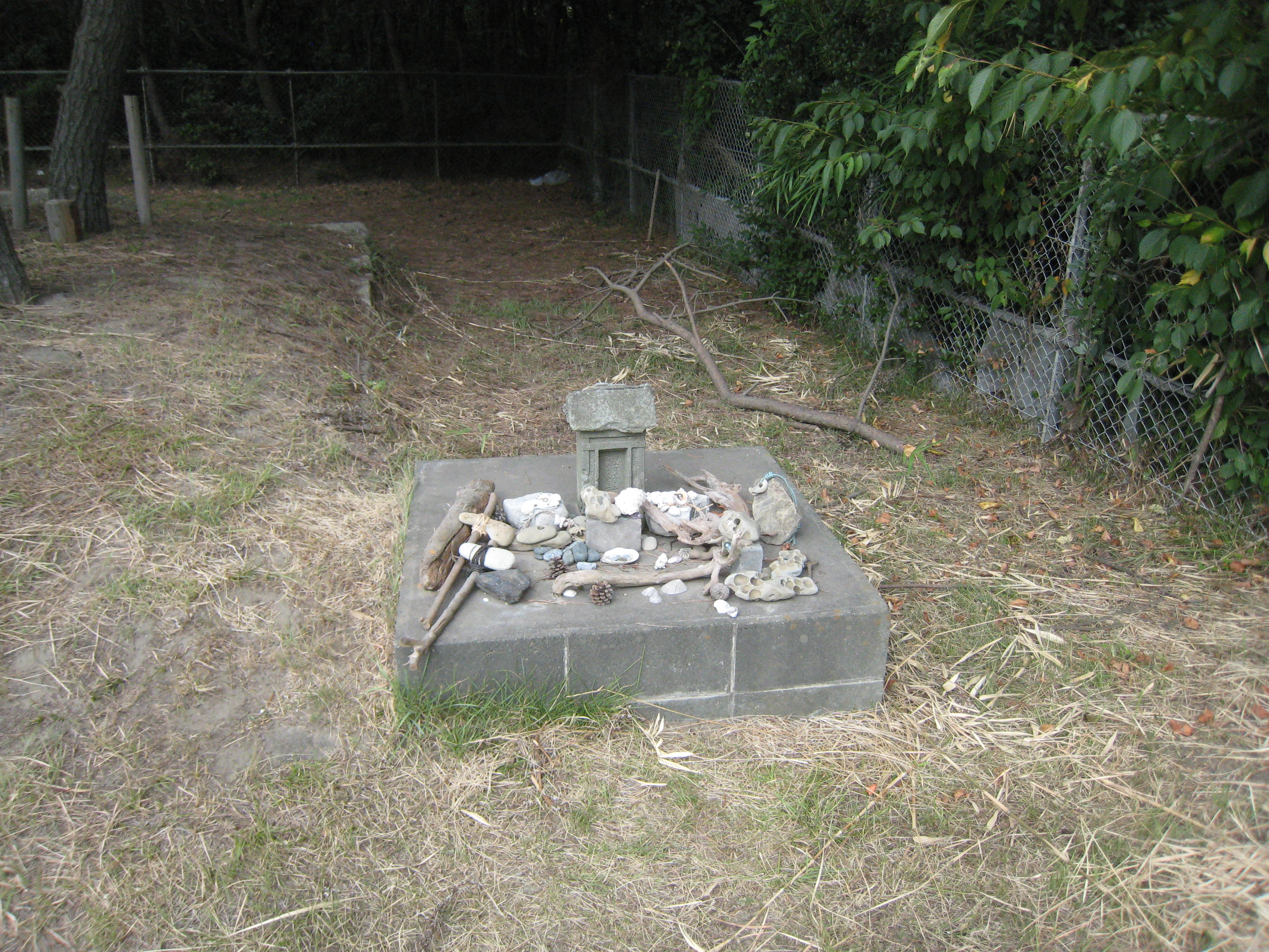 Shinto Chapel in Chiba